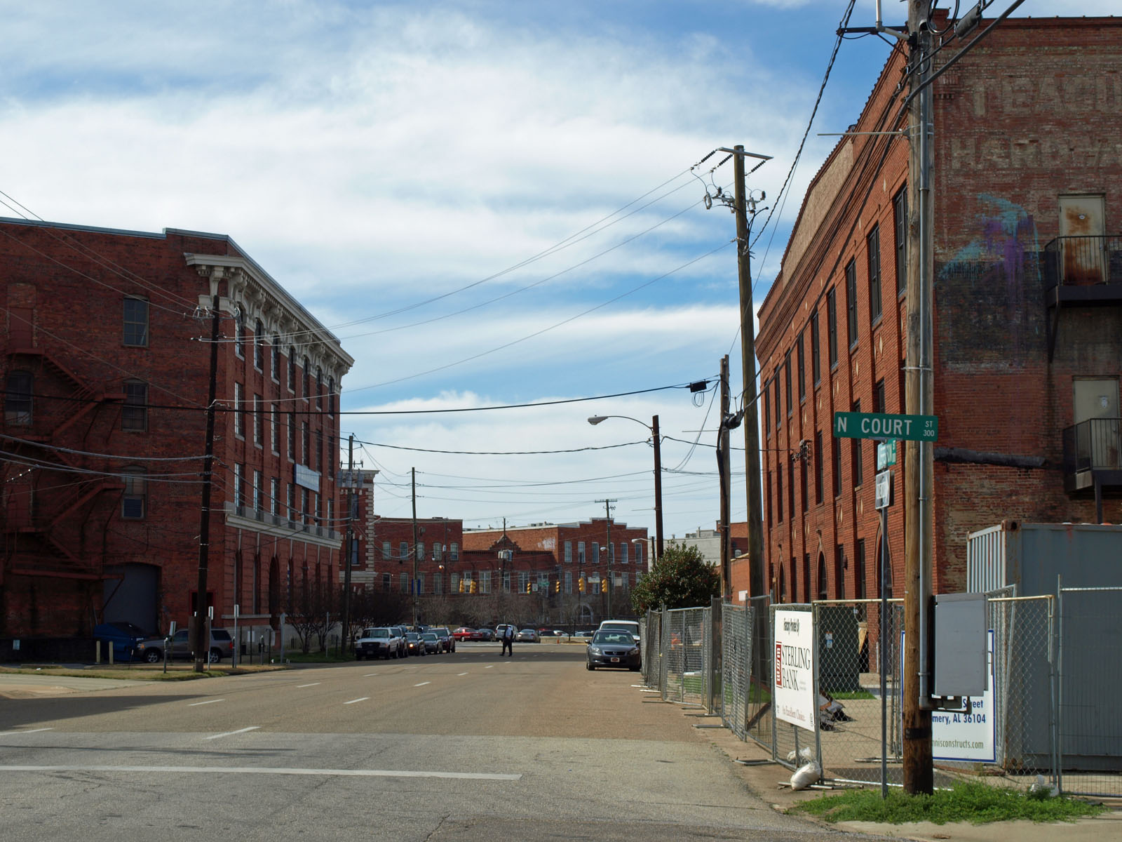 Buildings on West Jefferson Street in Montgomery, Alabama.